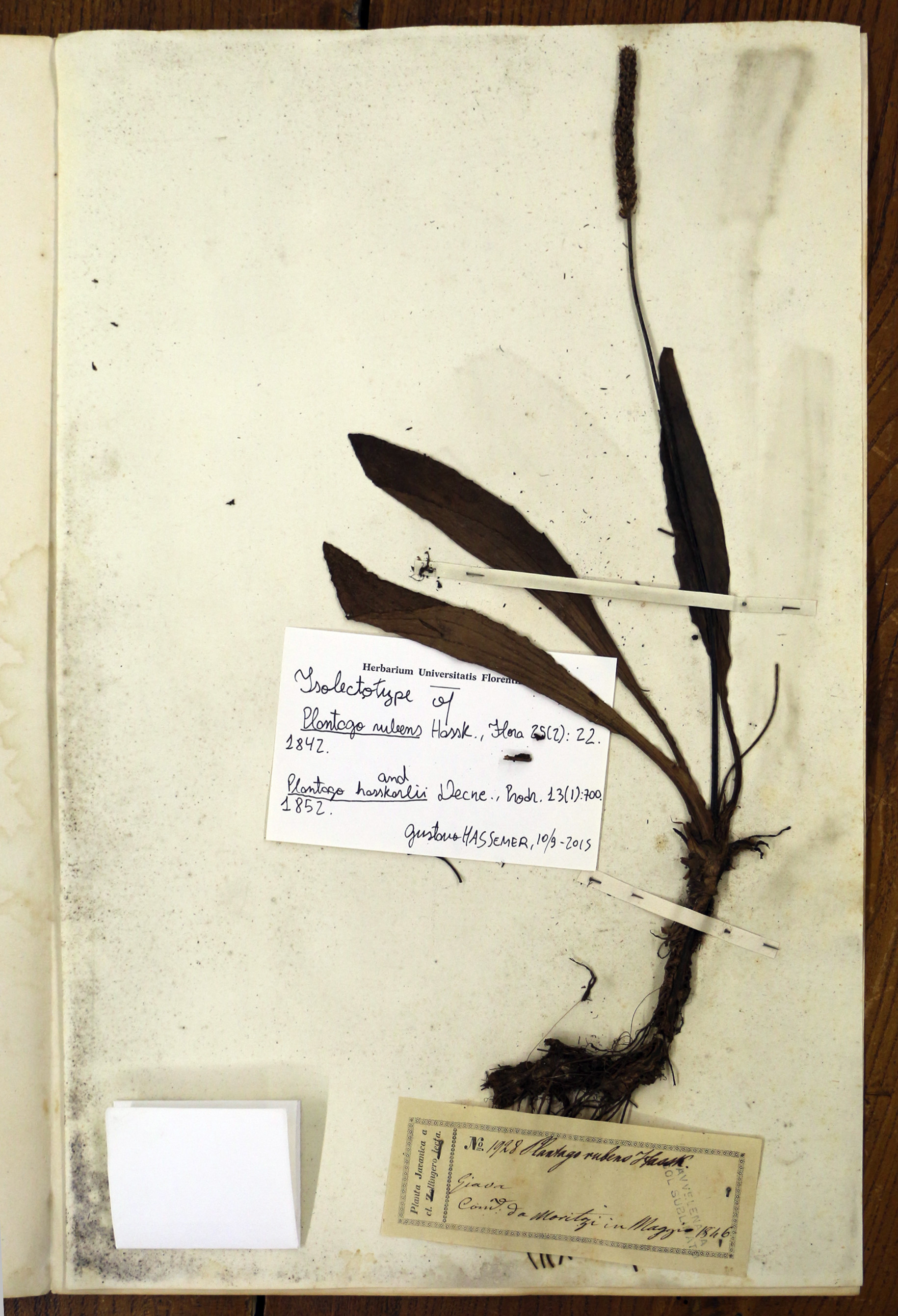 Museo di storia naturale (Florence) - Botany section